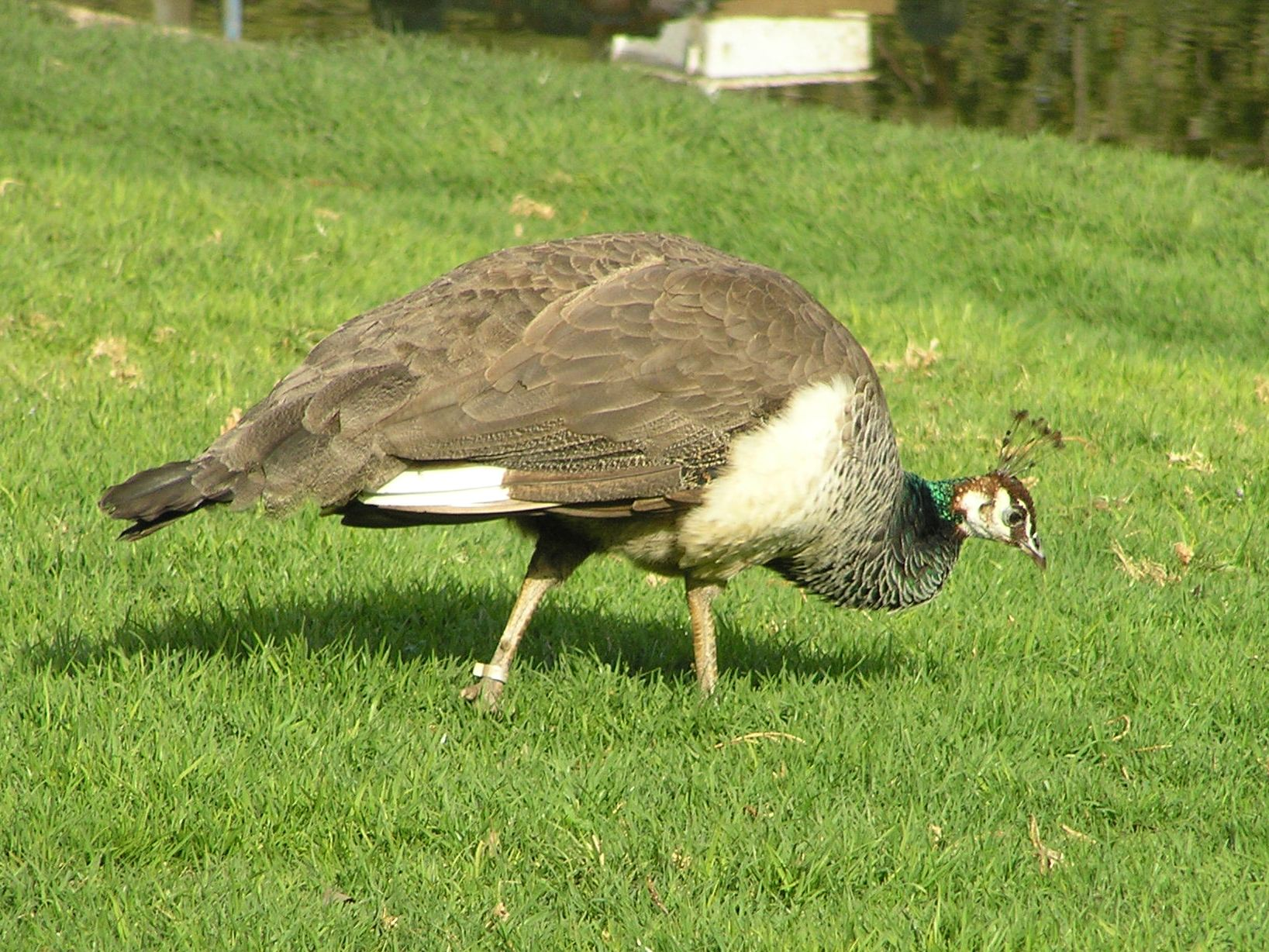 Taken in the Garden for Zoologic Research, Tel Aviv University, Israel.